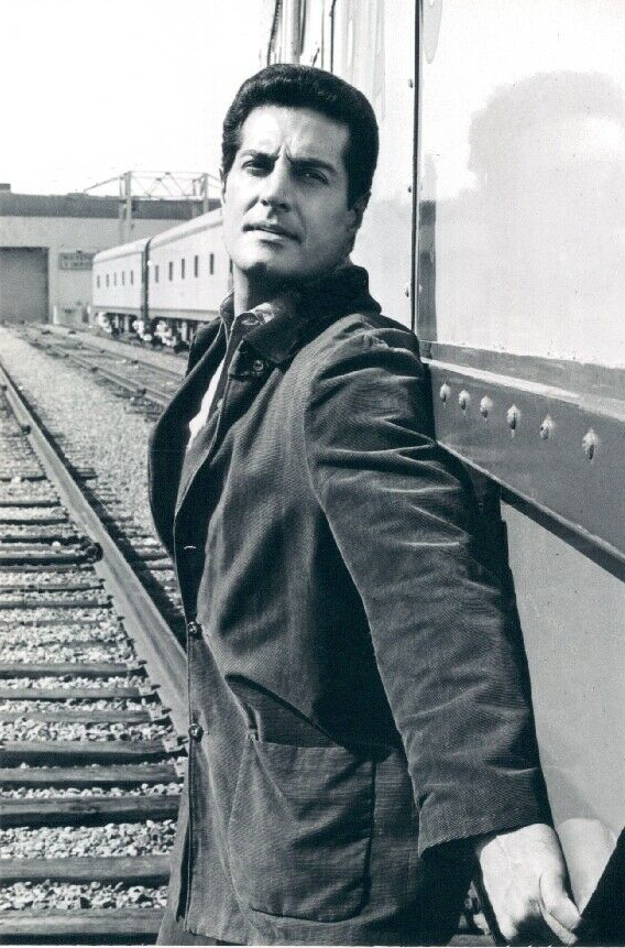 1967 Actor Peter Lupus Stars In CBS TV SHOW Mission Impossible Press Photo